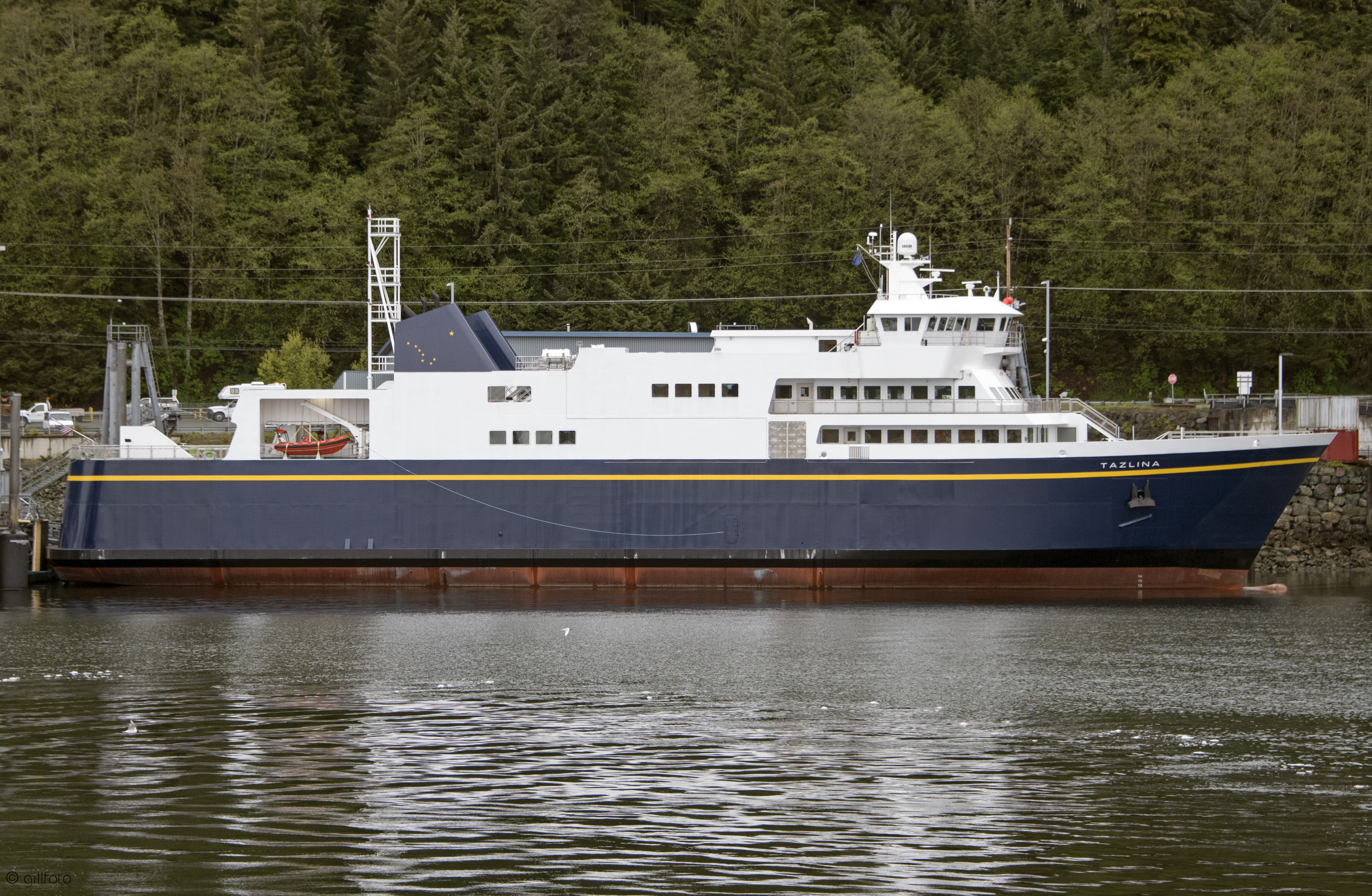 m/v Tazlina in new home port Auke Bay, Juneau, Alaska.